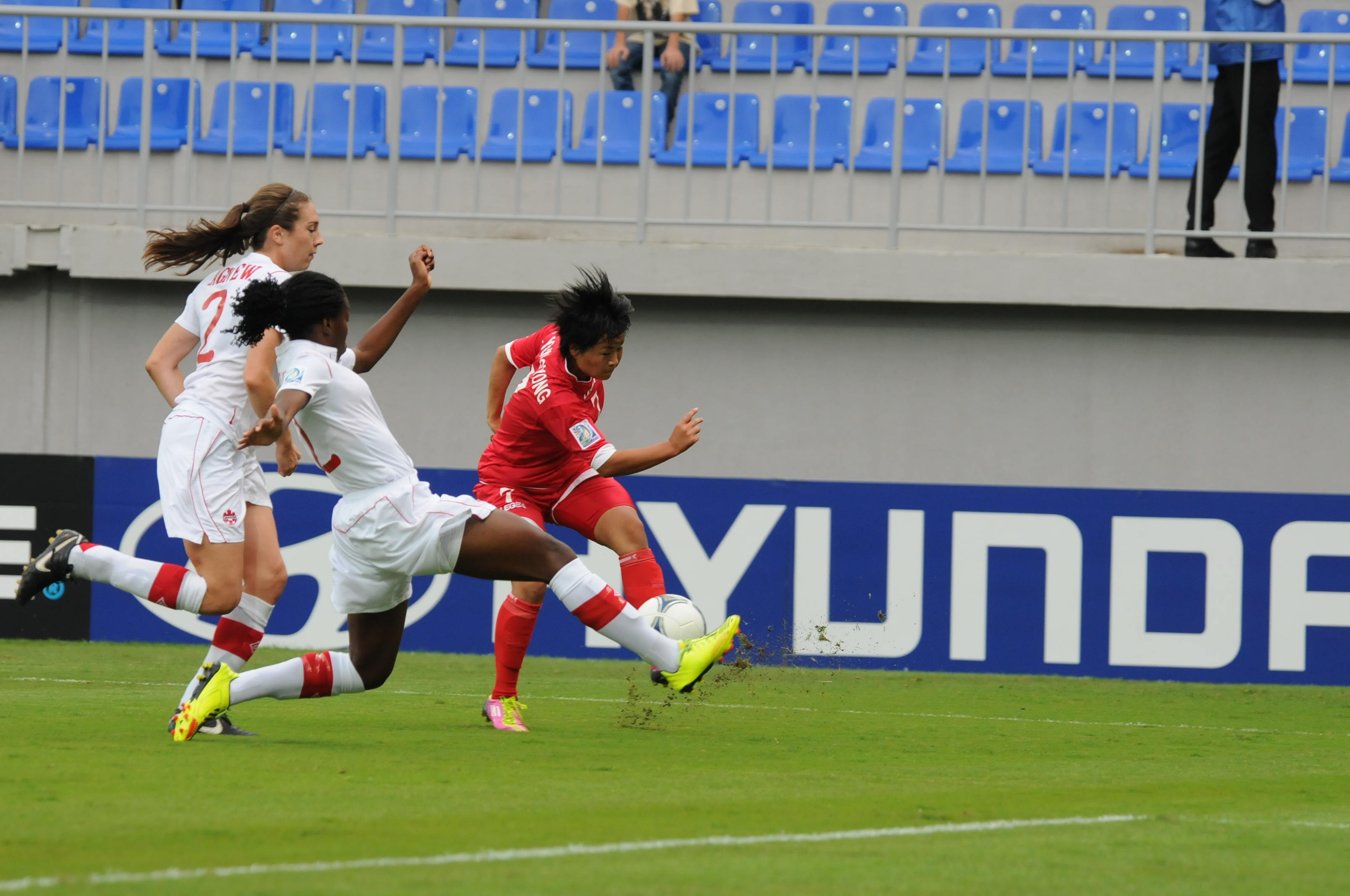 FIFA U-17 Women's World Cup 2012